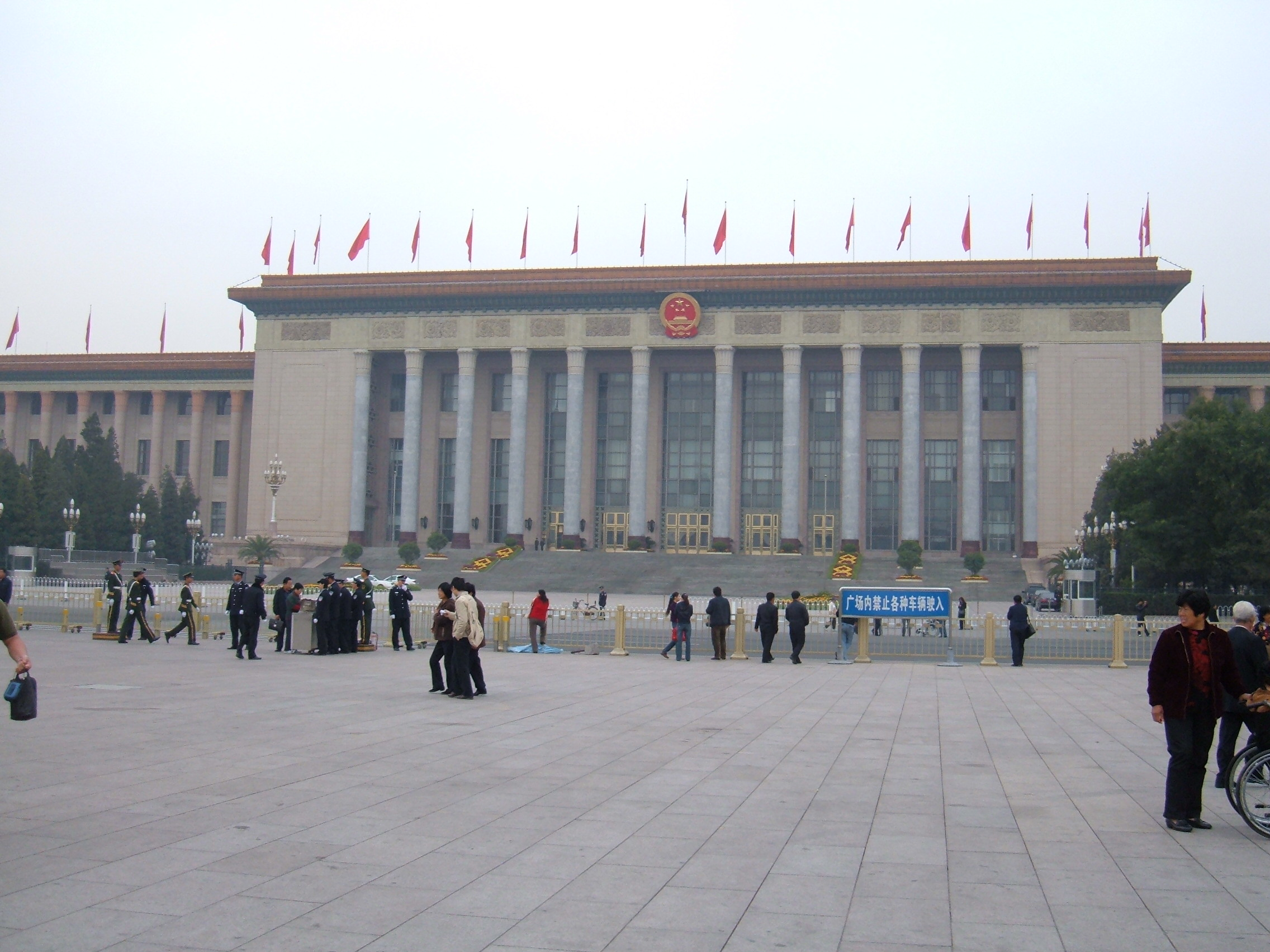 The Great Hall of the People in Beijing, PRC. A party congress was in session at the time this photo was taken, thus vehicular traffic was diverted from passing in front of the hall.